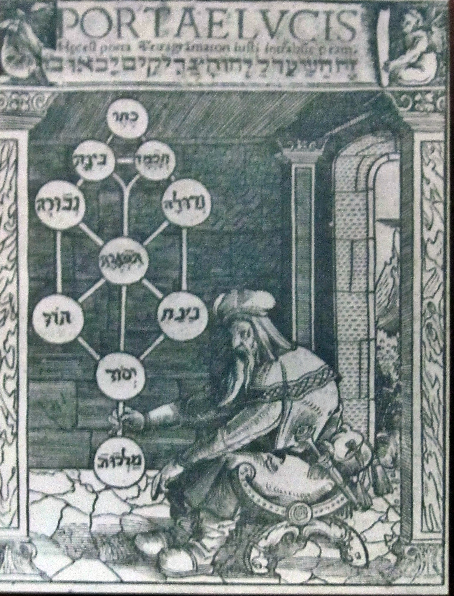 Portae Lucis by Joseph Gikatilla (1248 -1325) Augsburg, 1516 The book is a LAtin translation by Paulus Ricius of Gikatilla's most influential kabbalistic work